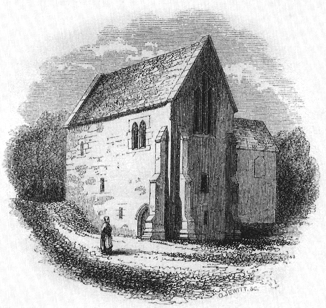 South-east view of Ecclesfield Priory in the early 1860s. Ecclesfield Hall, adjoining, is not shown.